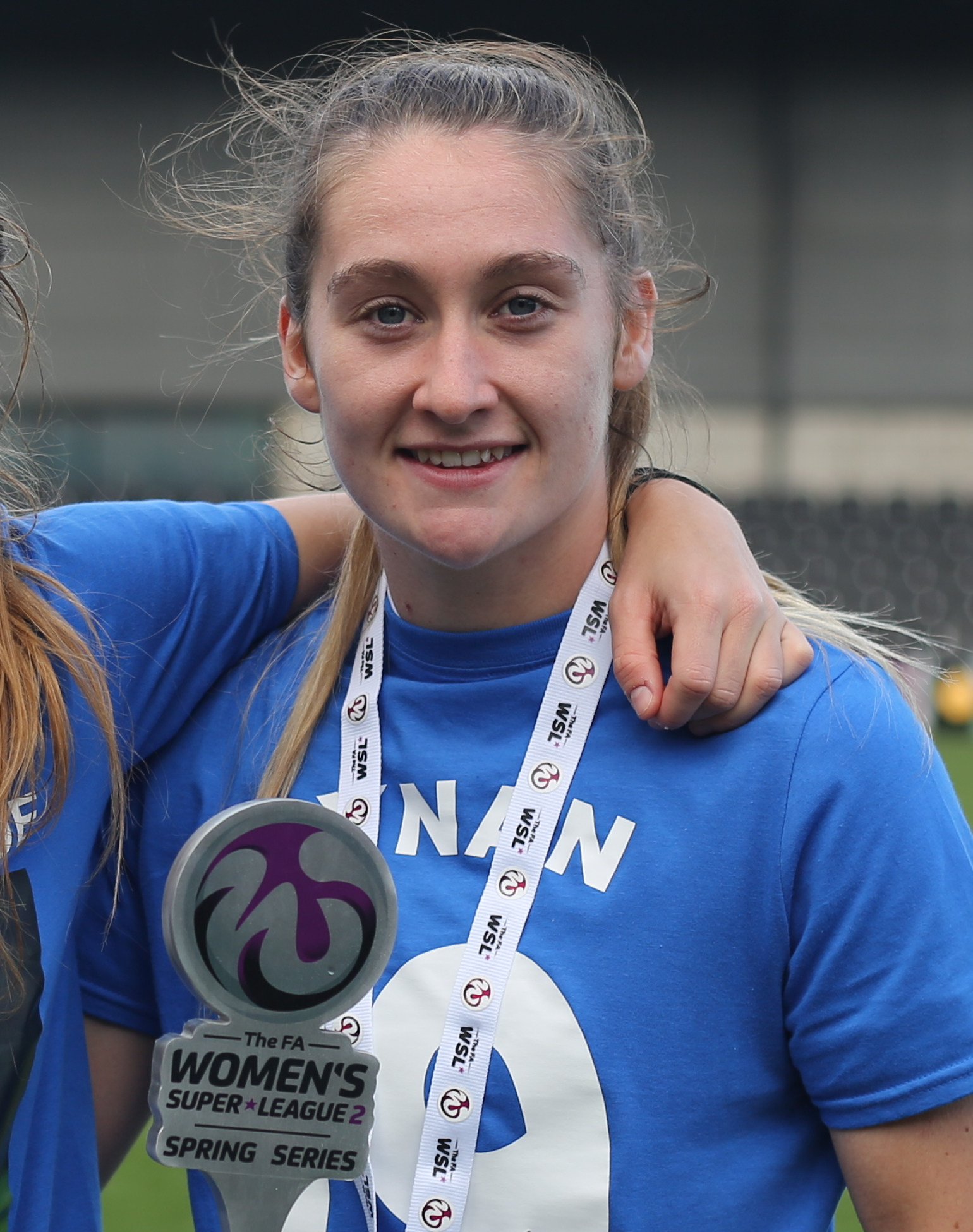 London Bees v Everton LFC, 20 May 2017 — Simone Magill (L), Claudia Walker (R)